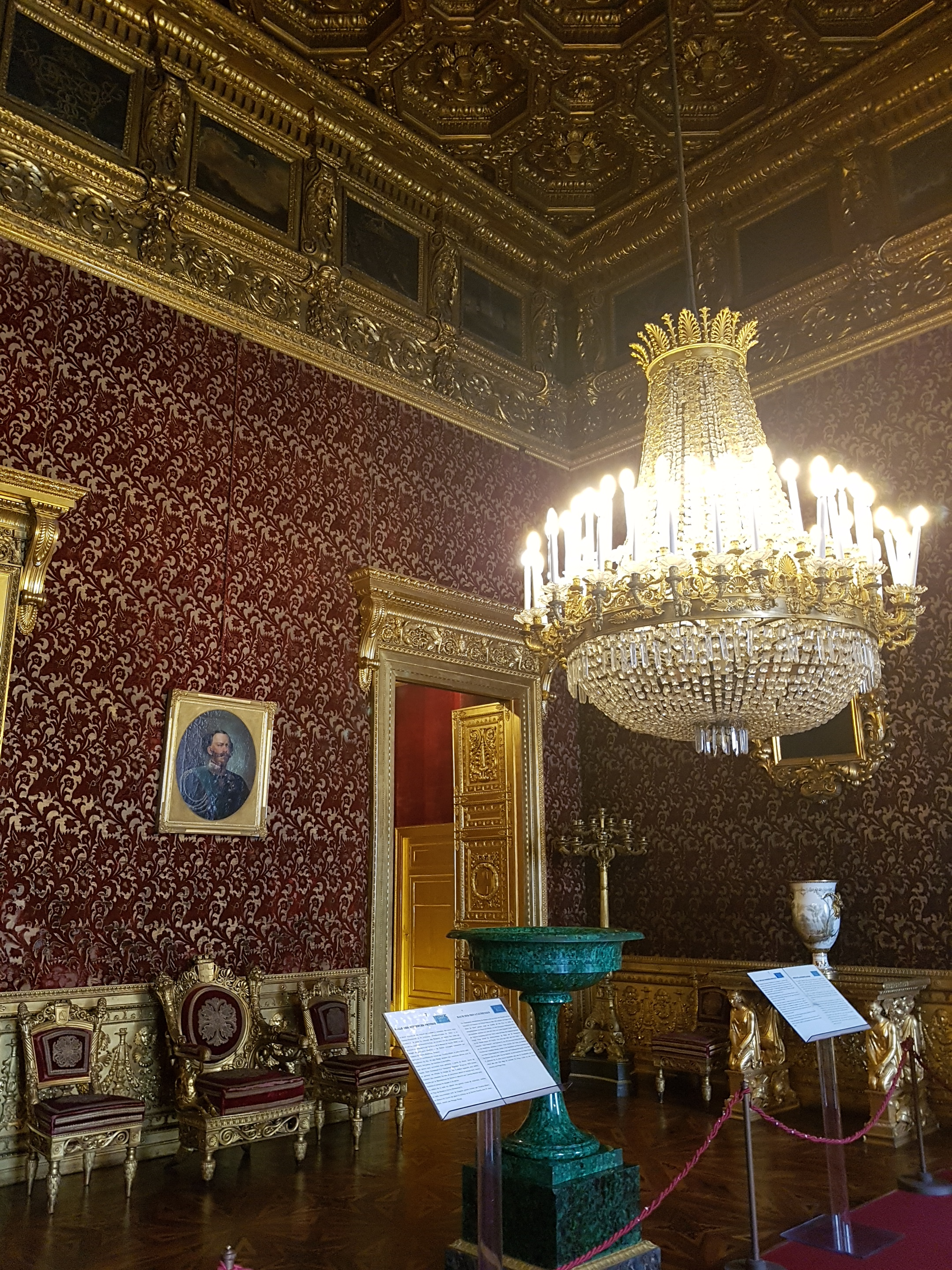 First floor: Private Audience Hall, Royal Palce of Turin, Northern Italy